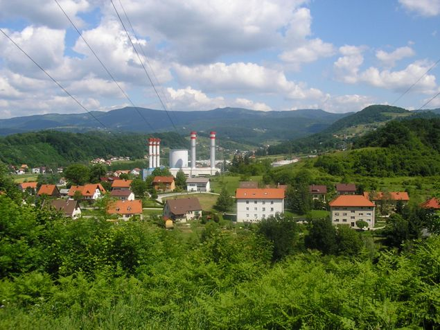 The town of Brestanica in Slovenia with Brestanica thermal power station in background